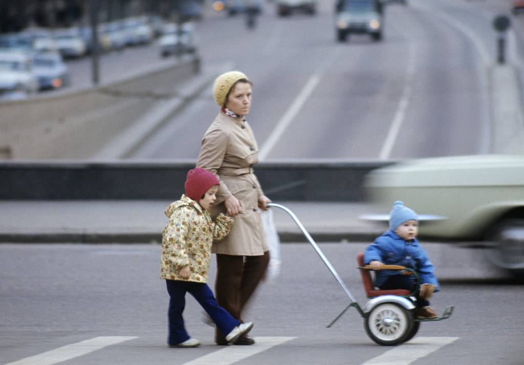 “Garden Ring”. Garden Ring.